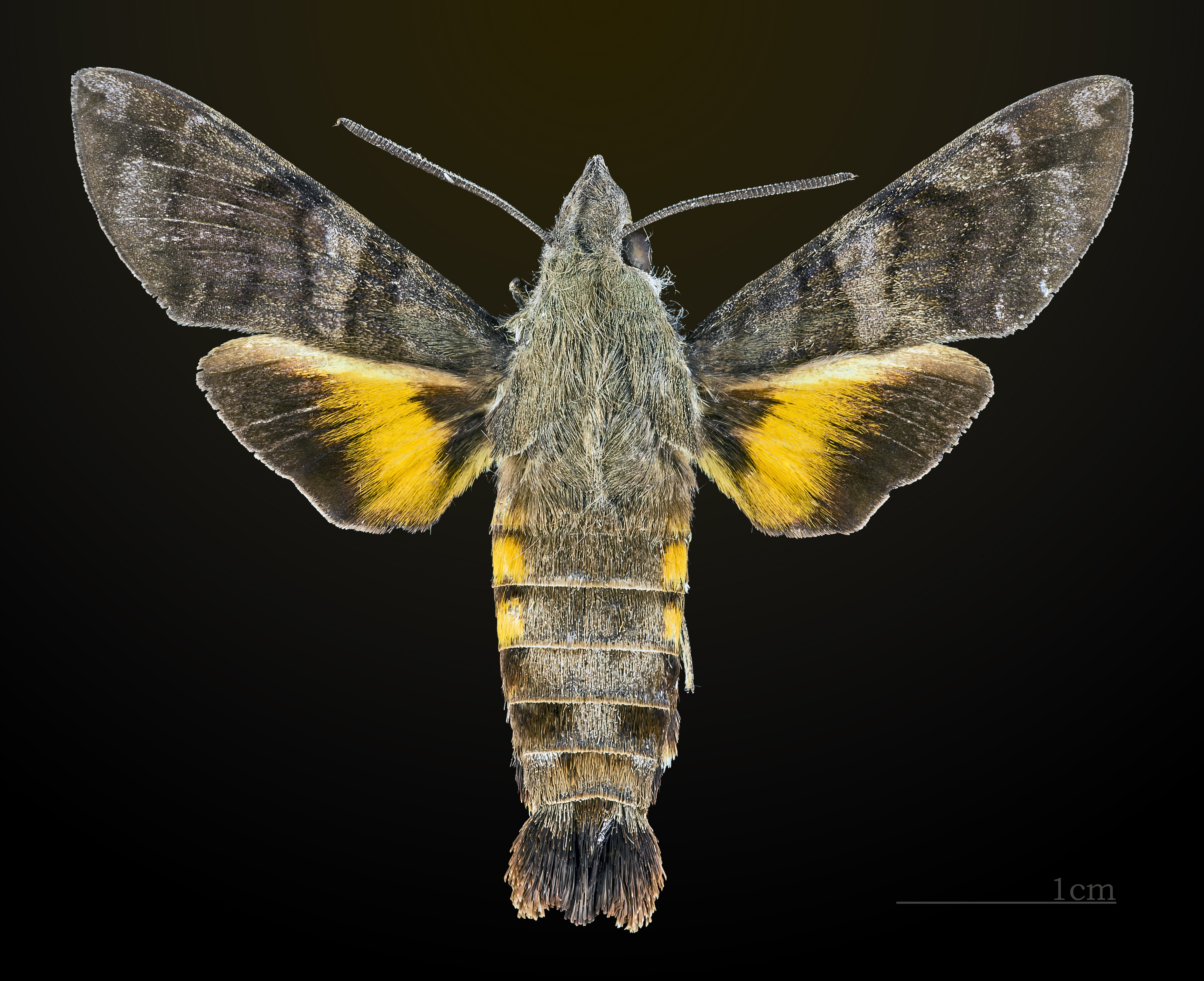 Macroglossum belis - Dorsal side Collection of the Mathematician Laurent Schwartz